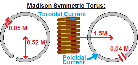 This is a picture of the geometry inside the Madison Symmetric Torus. The minor radius is 0.53 meters. The major radius is 1.5 meters. The torus is a 0.05 meter thick. There are two currents inside the device. First, a toroidal current runs around an iron core and second, a Poloidal current running inside the skin of the torus. Source: Almagri, A. F., S. Assadi, S. C. Prager, J. S. Sarff, and D. W. Kerst. "Locked Modes and Magnetic Field Errors in the Madison Symmetric Torus." Physics of Fluids B: Plasma Physics 4.12 (1992): 4080. Other information This is a picture of the geometry inside the Madison Symmetric Torus. The minor radius is 0.53 meters. The major radius is 1.5 meters. The torus is a 0.05 meter thick. There are two currents inside the device. First, a toroidal current runs around an iron core and second, a Poloidal current running inside the skin of the torus. Source: Almagri, A. F., S. Assadi, S. C. Prager, J. S. Sarff, and D. W. Kerst. "Locked Modes and Magnetic Field Errors in the Madison Symmetric Torus." Physics of Fluids B: Plasma Physics 4.12 (1992): 4080.